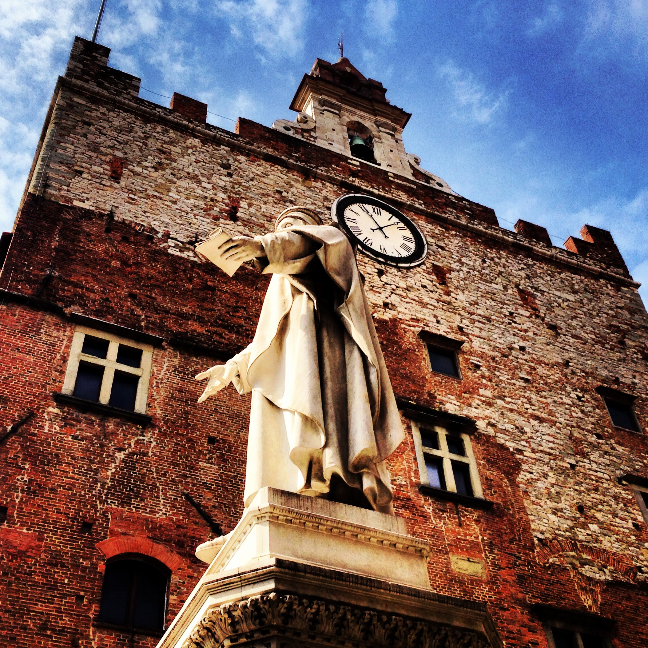 Prato Town Hall and the Monument to Francesco Datini This is a photo of a monument which is part of cultural heritage of Italy.